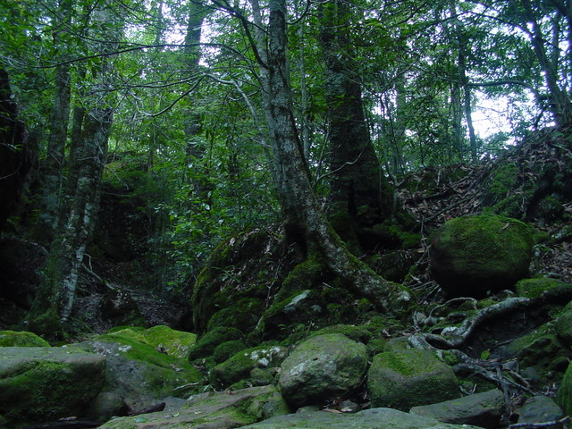 Close to hidden valley in the Budawang National Park.